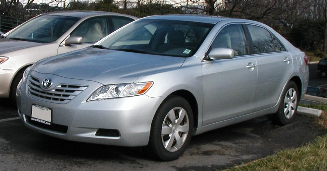 2007 Toyota Camry photographed in USA.